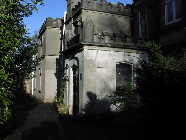 Rock House Rudyard Kipling lived at Rock House between 1896 and 1898, after returning from America. Unfortunately the dense vegetation reduces the view. A blue plaque commemorates Kipling's residency, and can just be seen next to the front door.